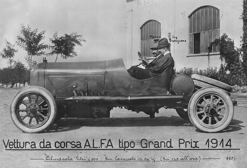 Giuseppe Merosi (in the background) and engineer Baragiana (front) on the A.L.F.A. 40-60 Grand Prix in 1921. This was launched in 1914 with 4.5 liter engine and 88 HP at 2.950 giri. In this picture from 1921, they car has had its power increased to 102 HP at 3,000 rpm.[1]